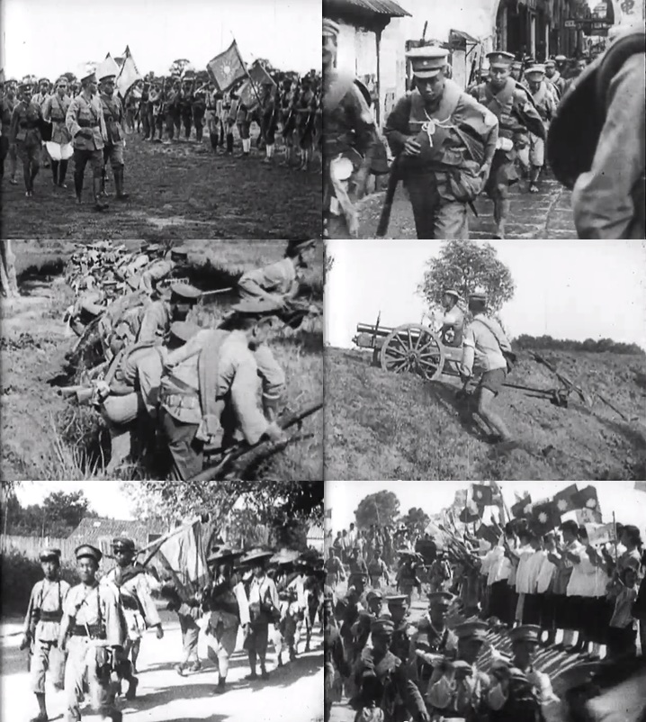 A collage of the Northern Expedition. Clockwise from top-left: Chiang inspecting soldiers of the National Revolutionary Army; NRA troops marching northwards; an NRA artillery unit engaged in a battle with warlords; people showing support for the NRA; peasants volunteer to join the expedition; NRA soldiers preparing to launch an attack.